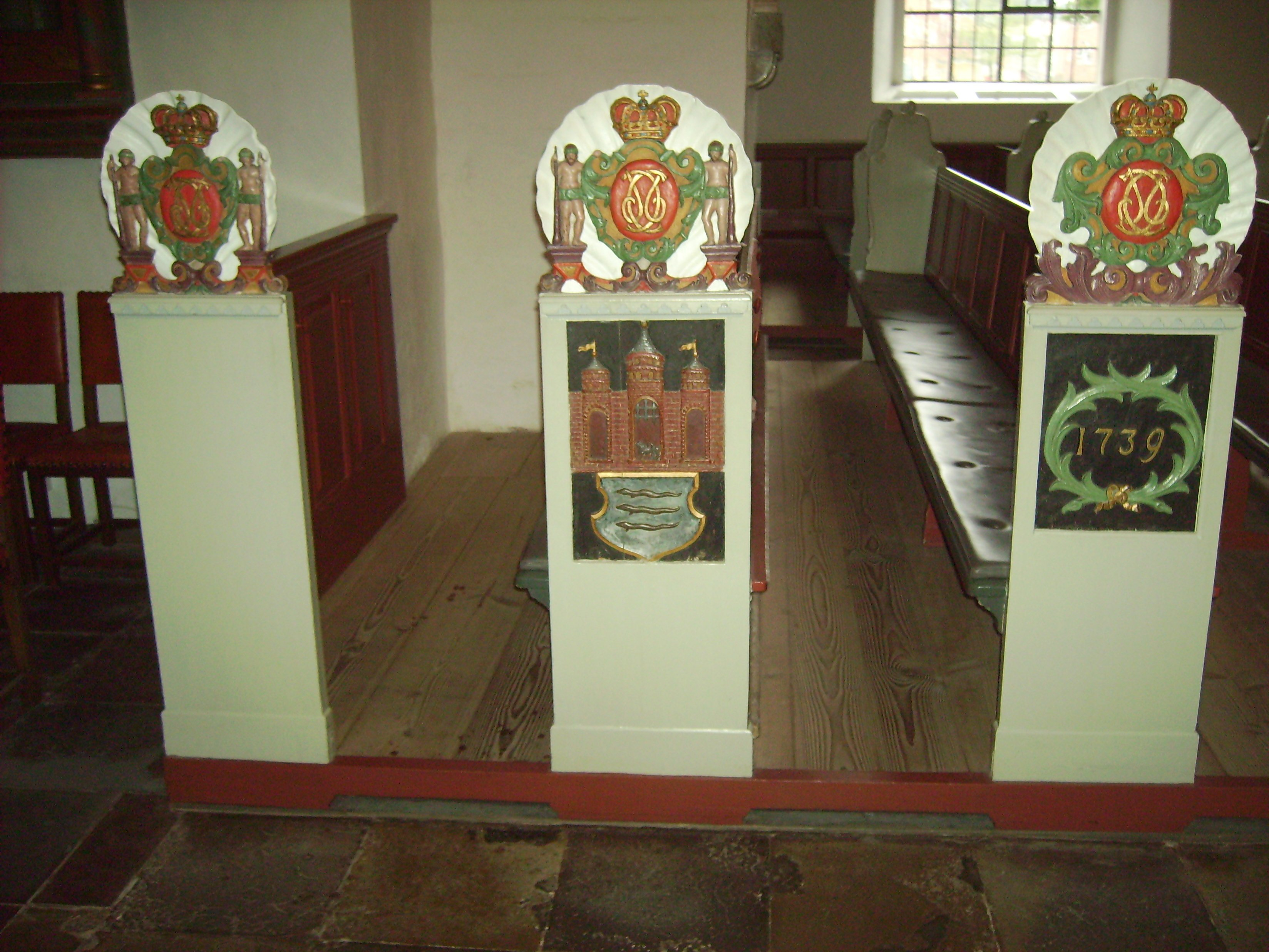 Budolfi Church in Aalborg, Denmark.